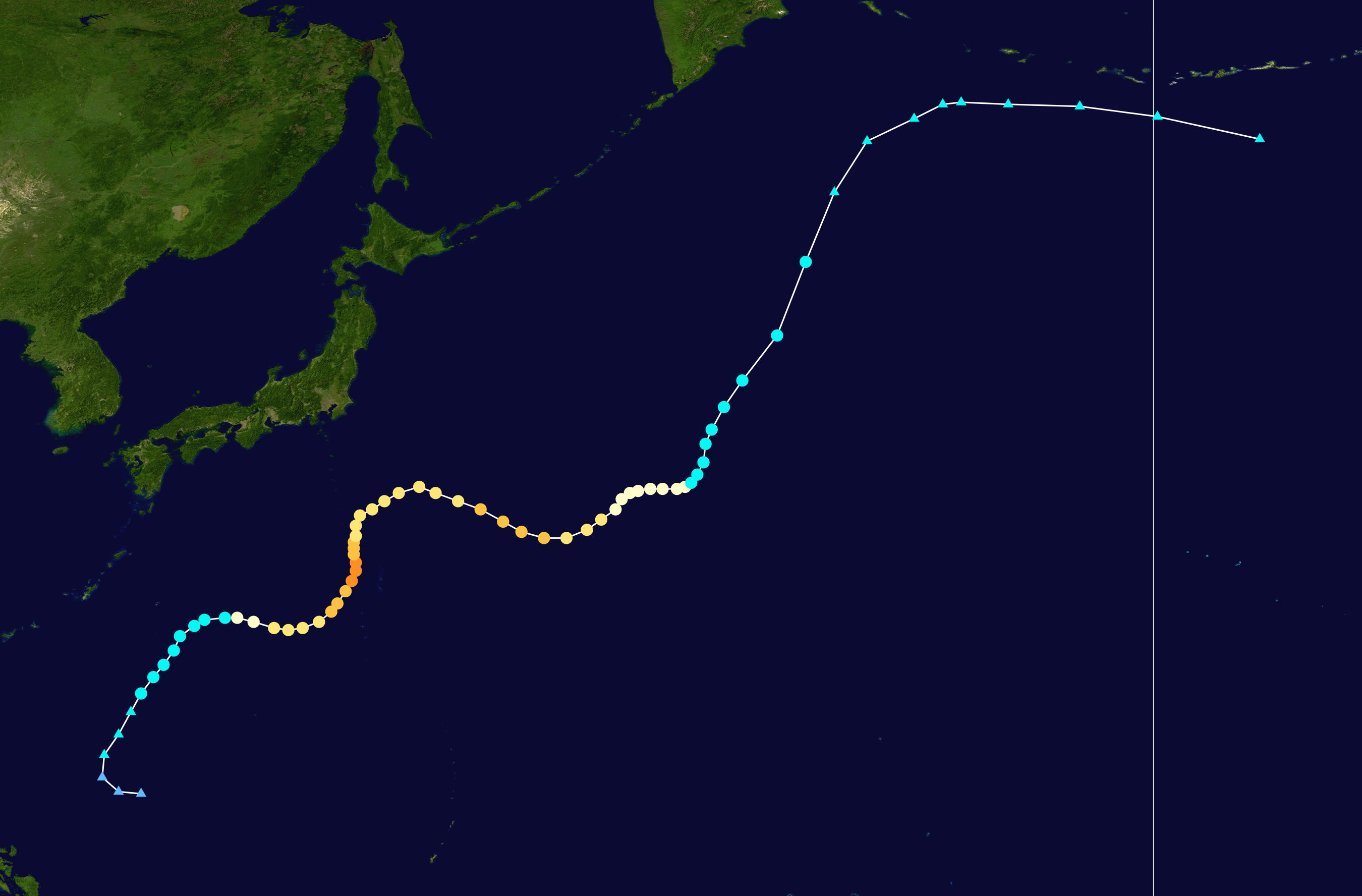 Track map of Typhoon Rex of the 1998 Pacific typhoon season. The points show the location of the storm at 6-hour intervals. The colour represents the storm's maximum sustained wind speeds as classified in the Saffir–Simpson scale (see below), and the shape of the data points represent the nature of the storm, according to the legend below. Saffir–Simpson scale Tropical depression≤38 mph≤62 km/h Category 3111–129 mph178–208 km/h Tropical storm39–73 mph63–118 km/h Category 4130–156 mph209–251 km/h Category 174–95 mph119–153 km/h Category 5≥157 mph≥252 km/h Category 296–110 mph154–177 km/h Unknown Storm type Tropical cyclone Subtropical cyclone Extratropical cyclone / Remnant low / Tropical disturbance / Monsoon depression